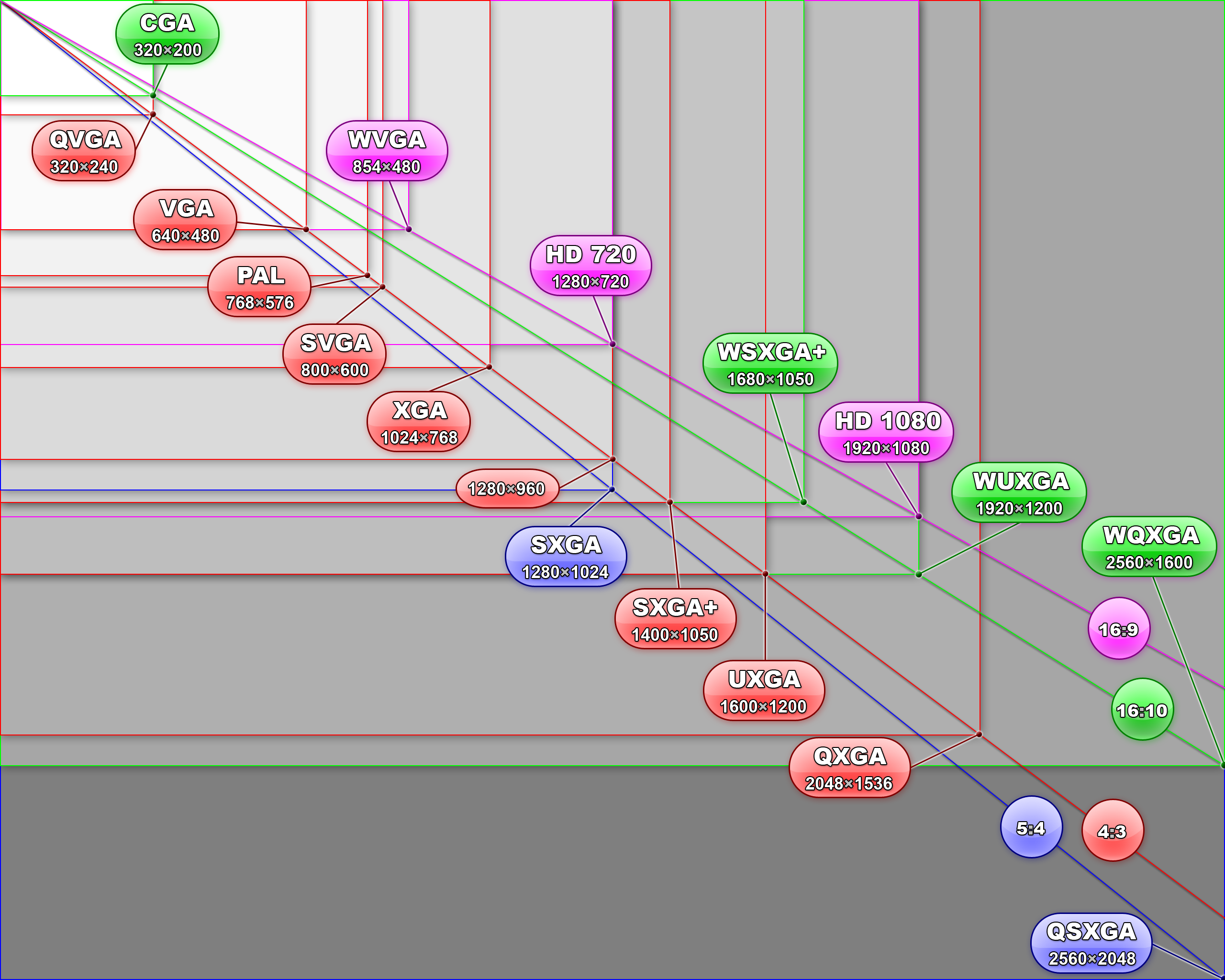 Summary Comparison between MOST known Video Resolutions including relevant Aspect Ratio Lines. Made for use on Computer Video Standards page. Originally created by Patrick G. Durland - graphically updated by Matthew Tardiff.